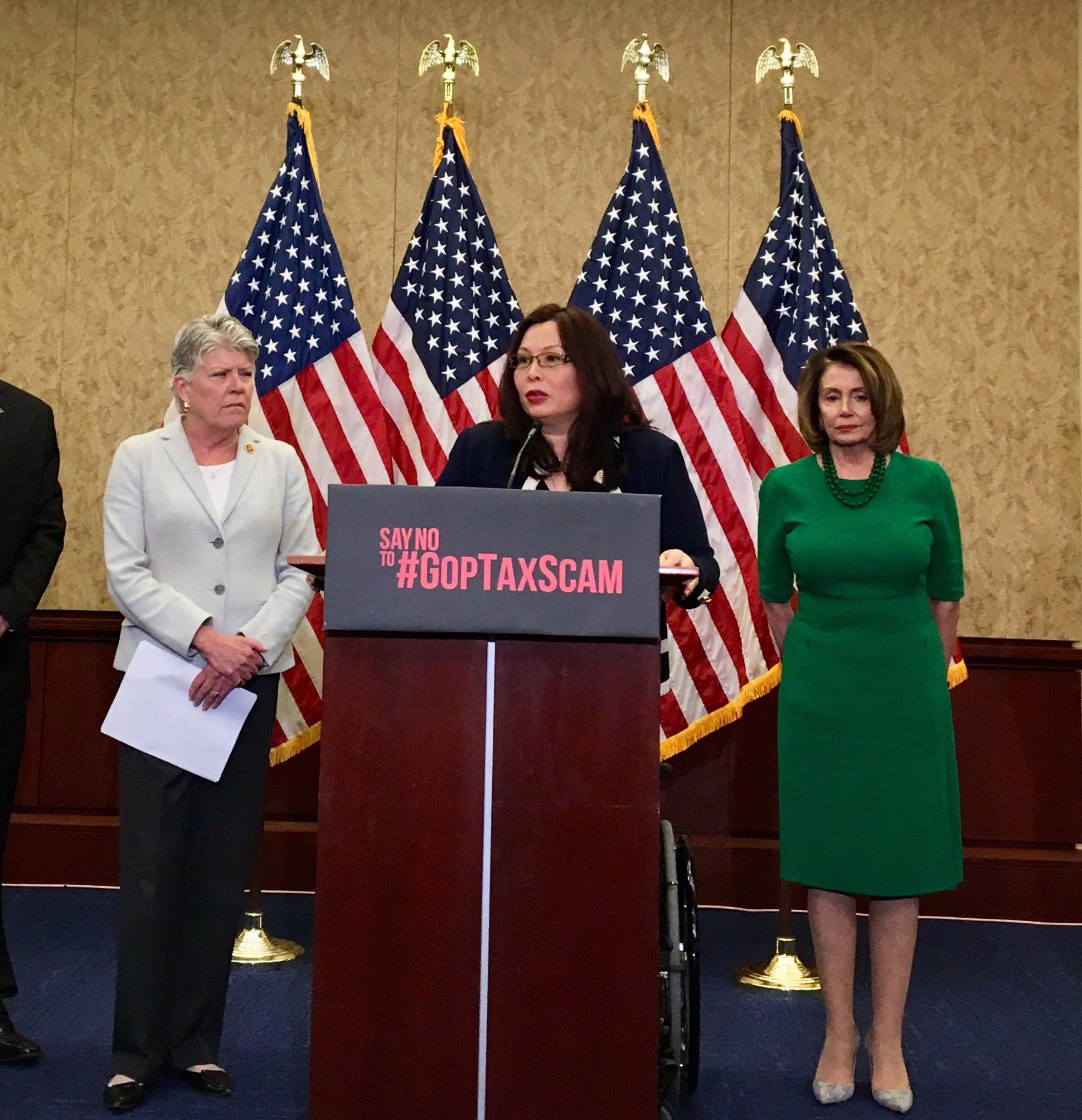 Today, I joined @NancyPelosi in speaking out against the #GOPTaxScam, which will give those who don’t need it, like Trump’s well-connected ultra-wealthy friends & family, a massive windfall at the expense of everyone else, incl Veterans & those w/ disabilities